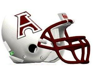 Águilas Blancas helmet I drew a long time ago.